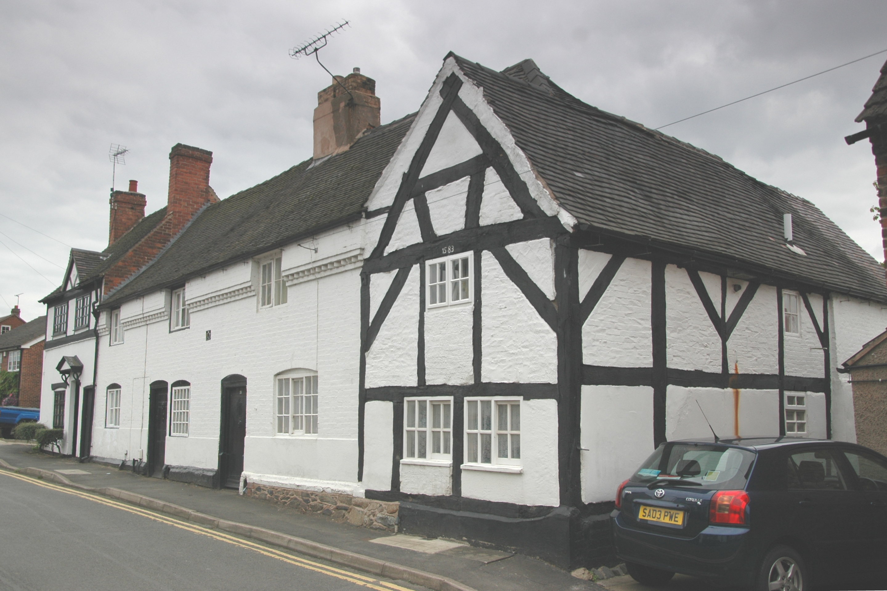 Timber-framed vernacular cottage at 26-28 Dennis Stret, Hugglescote, Leicestershire, dated 1583, with eastward extension dated 1761